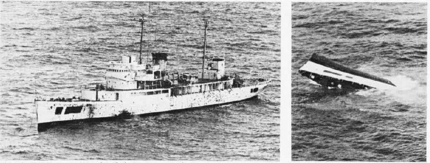 The U.S. Coast Guard Cutter USCGC Coos Bay (WHEC-376) being sunk as a target on 9 January 1968 200 km (120 mi) off the coast of Virginia (USA). Originally USS Coos Bay (AVP-25) was a Barnegat-class small seaplane tender commissioned by the U.S. Navy for use in the Second World War. From 1949 to 1966 she was loaned to the U.S. Coast Guard, first designated WAVP-376, later WHEC-376. After her return to the Navy, the Coos Bay was struck from the Naval Register and on 9 January 1968 she was used as target by the guided missile destroyer USS Claude V. Ricketts (DDG-5), using a RIM-2 Tartar missile. Later she was attacked by 35 aircraft, and finally sunk by a AGM-12 Bullpup missile, fired by a Vought A-7A Corsair II.